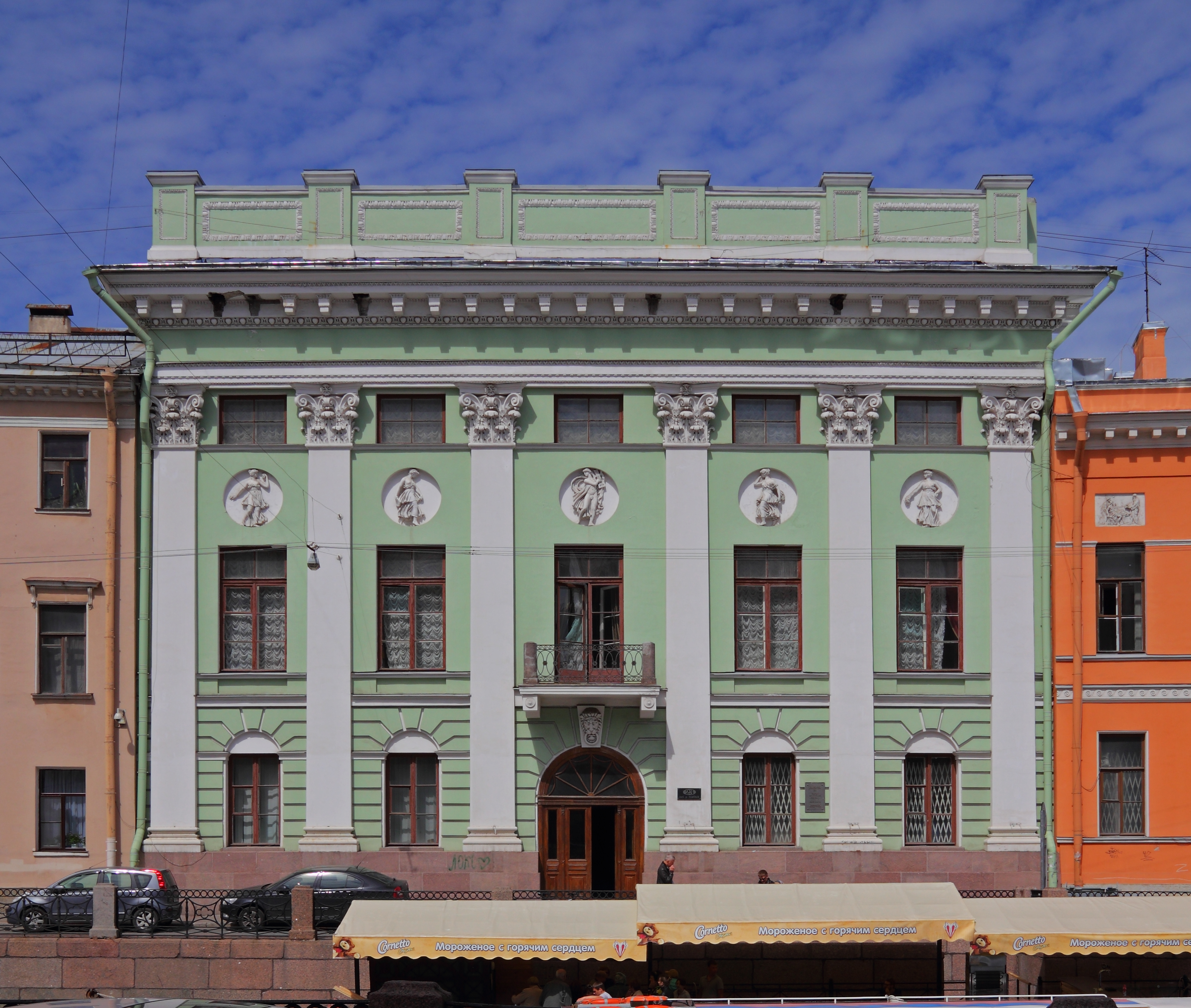 Saint Petersburg, Russia. Moika Embankment, 23 (Makarov House).